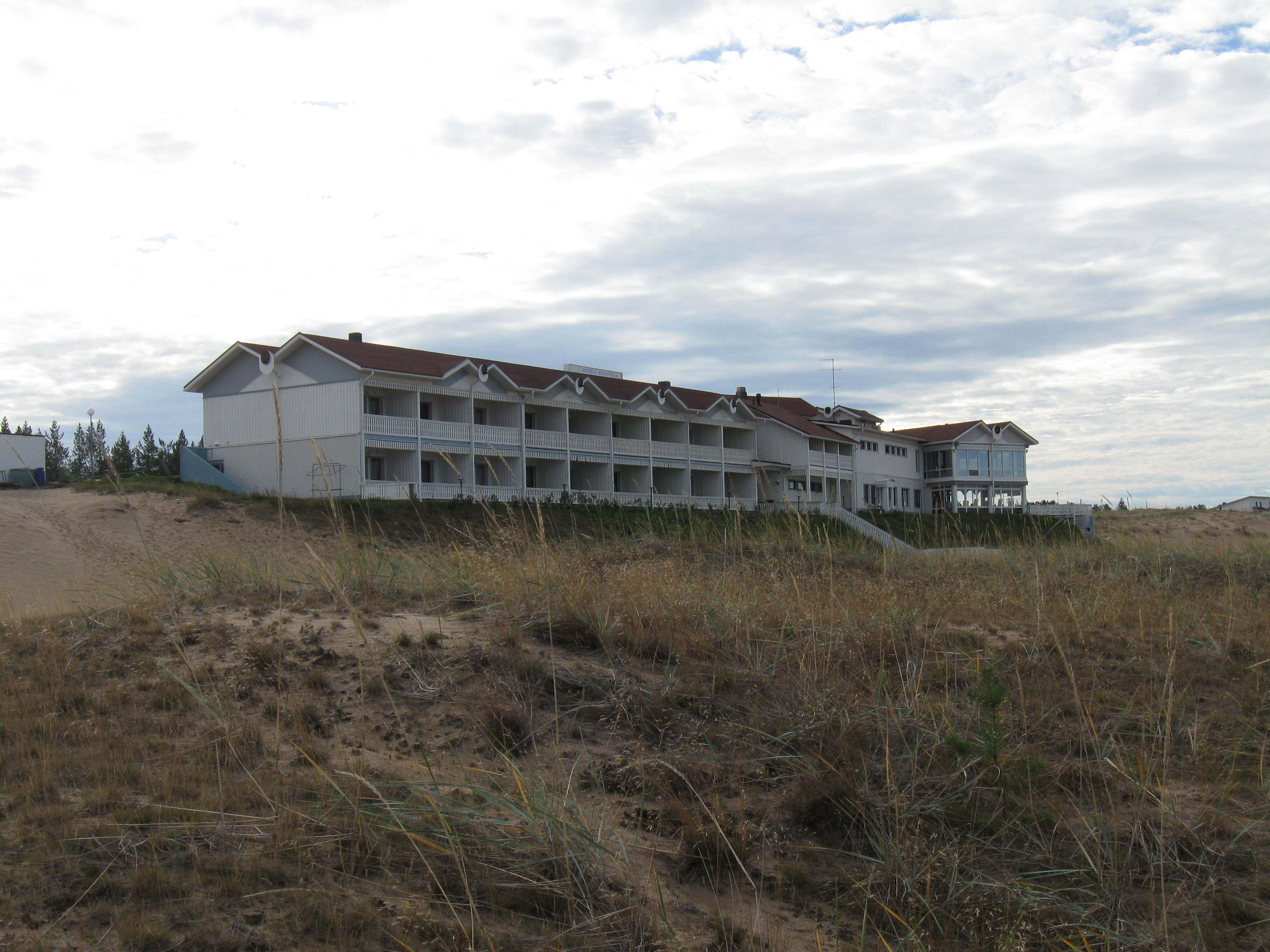 The hotel and restaurant Lokkilinna in the Hiekkasärkät area of Kalajoki, Finland.